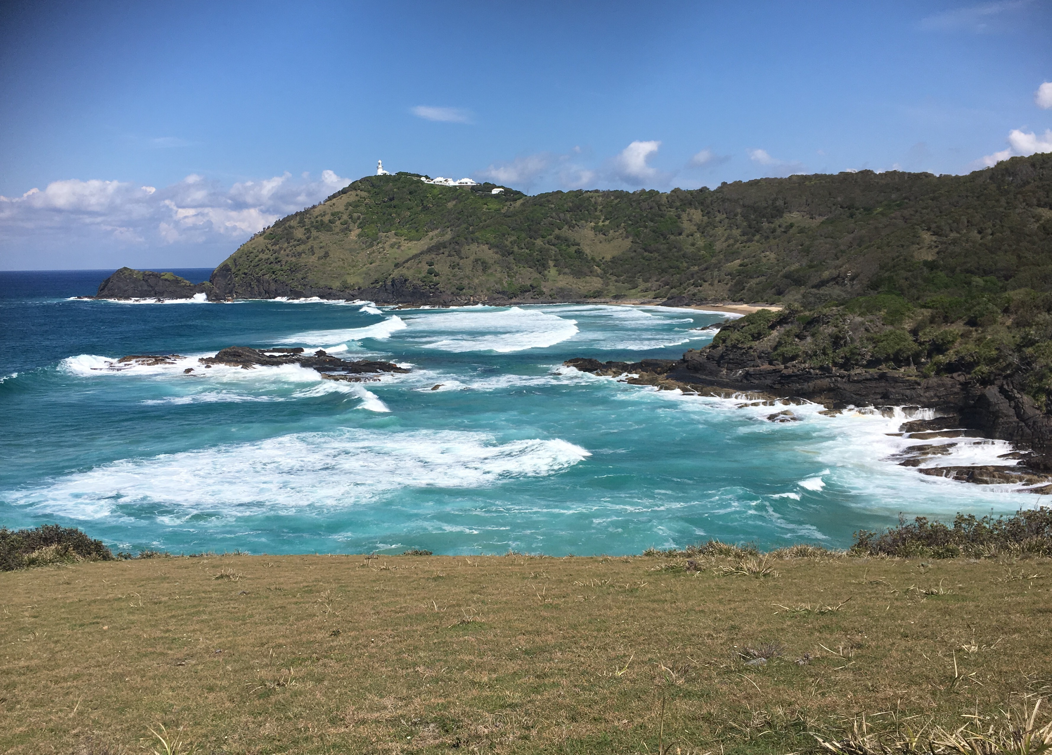 Smoky Cape Smoky Cape and Smoky Cape Lighthouse as seen from The Ledge in Hat Head National Park